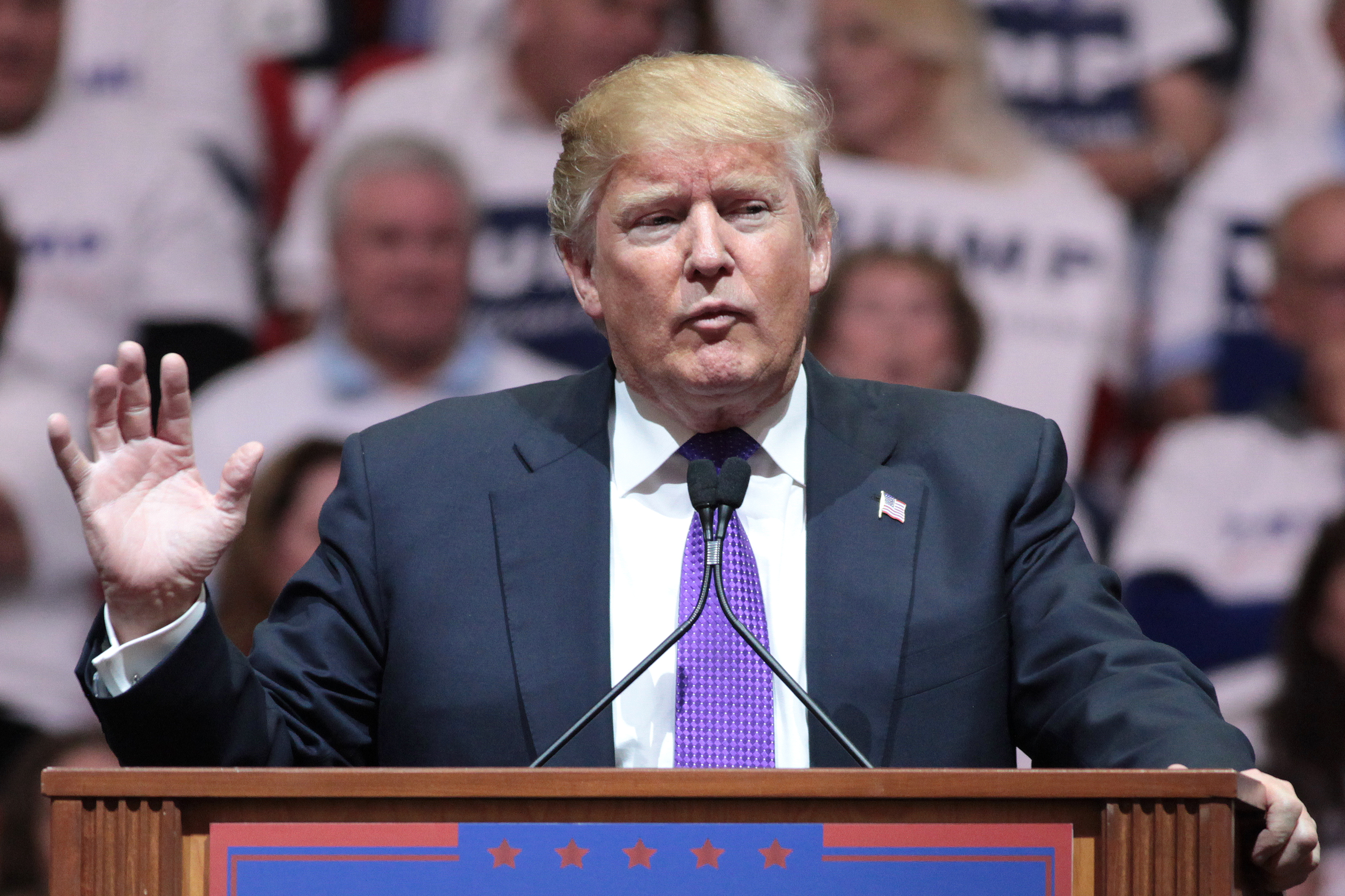 Donald Trump speaking with supporters at a campaign rally at the South Point Arena in Las Vegas, Nevada.